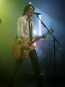 Jon Hume performing at the Tivoli, Brisbane. Depicted person: Jon Hume – New Zealand musician